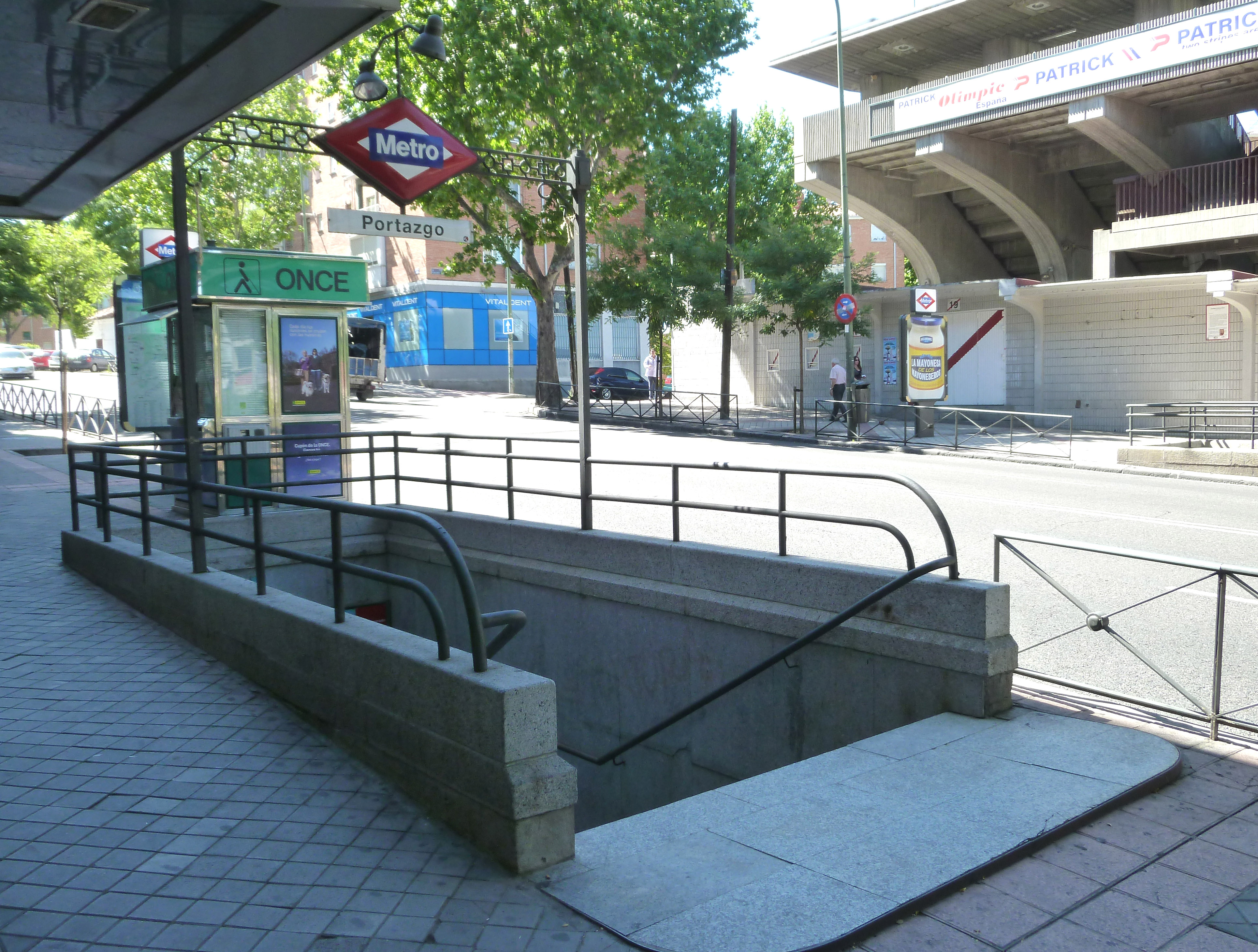 Entrance of Portazgo metro station in Puente de Vallecas district in Madrid (Spain).